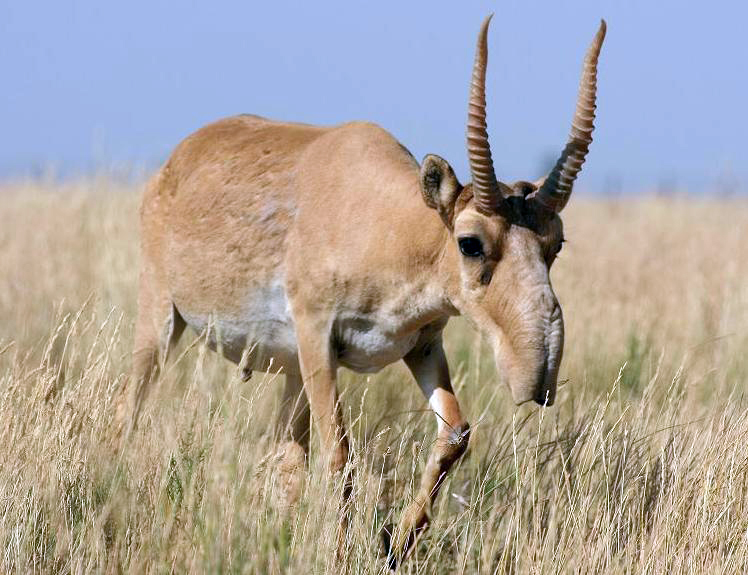 Image of a saga, Saiga tartarica